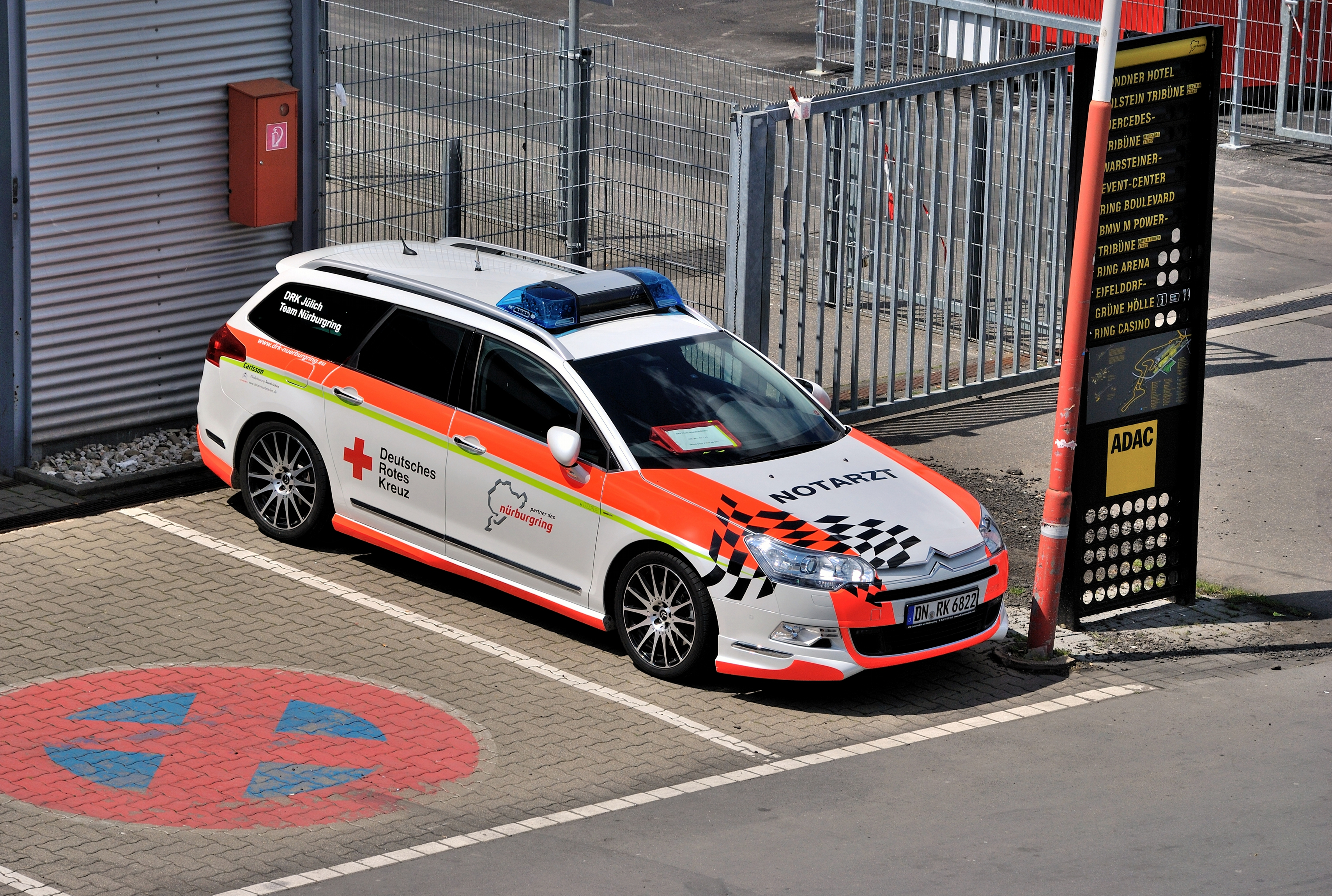 Nürburgring (District of Ahrweiler Rhineland-Palatinate, Germany) – paddock – rapid response vehicleThis photograph was taken with a Nikon D3000